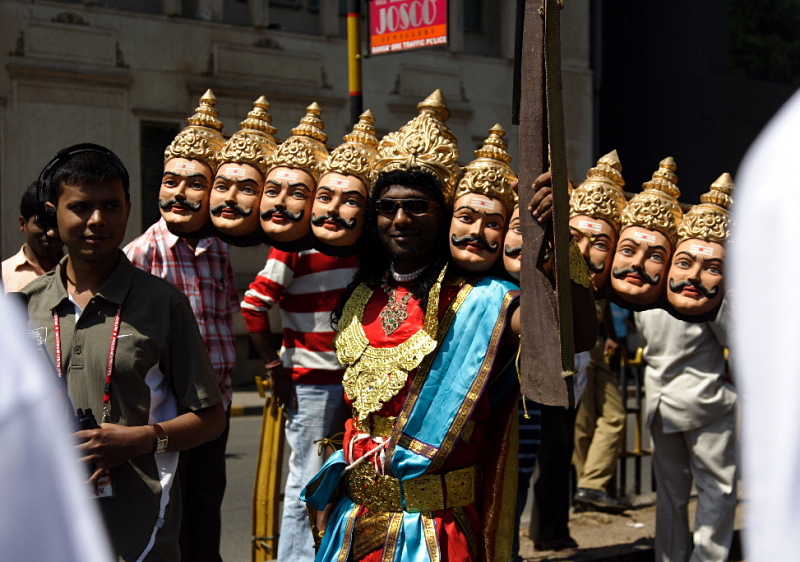 A fun runner at the 2008 Sunfeast World 10K Bangalore taking part in the Majja Run (5.7 km). (Original description: if you are from a security agency, you might want to question him about the rifle. The 'maja run' leg of Bangalore 10k Run had all sorts of interesting characters.)